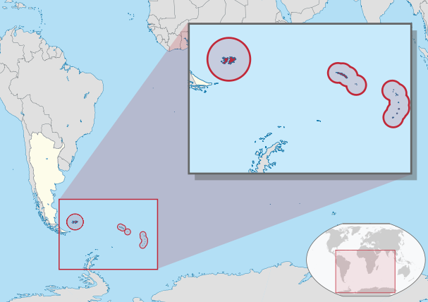 Location of the islands that would belong to the department "Islas del Atlantico Sur", in the Tierra del Fuego Provincie, Argentina.